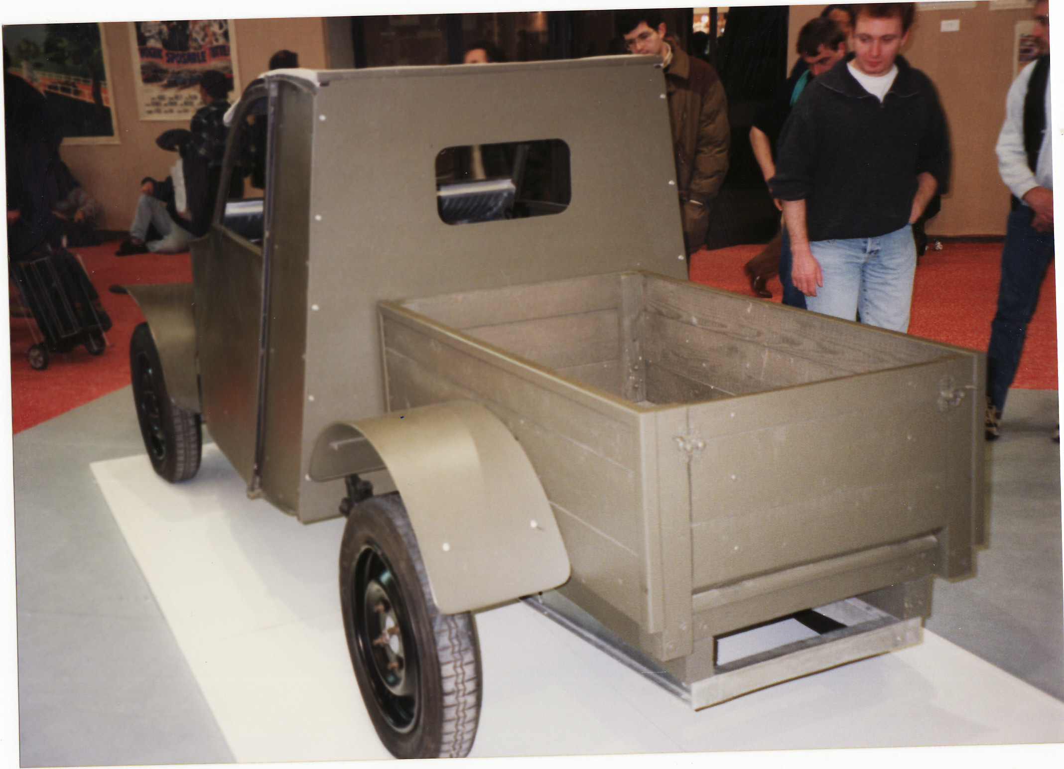 The first Prototype Citroen 2CV, c.1936, with Water cooling!